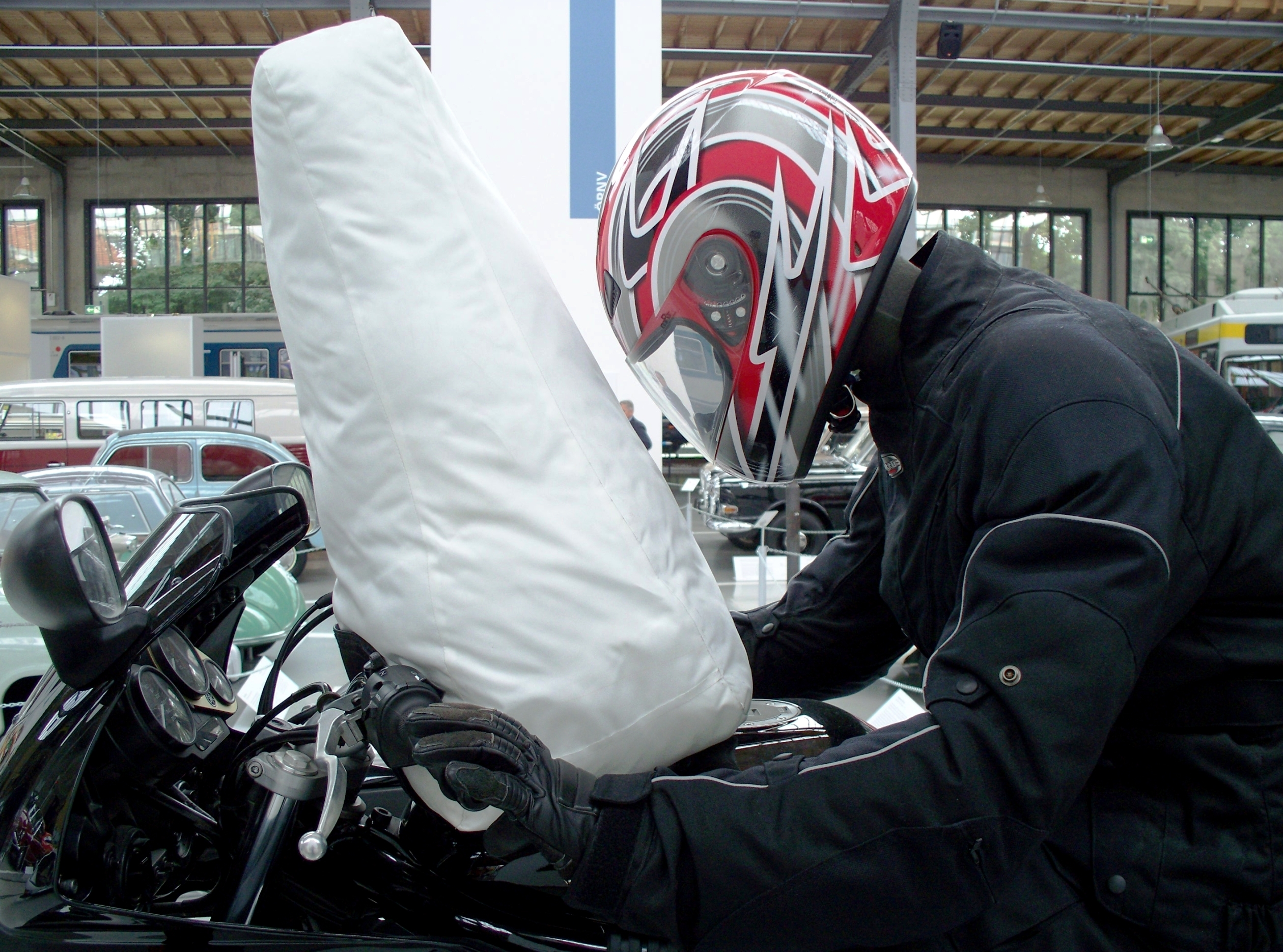 Airbag on motorcycles.